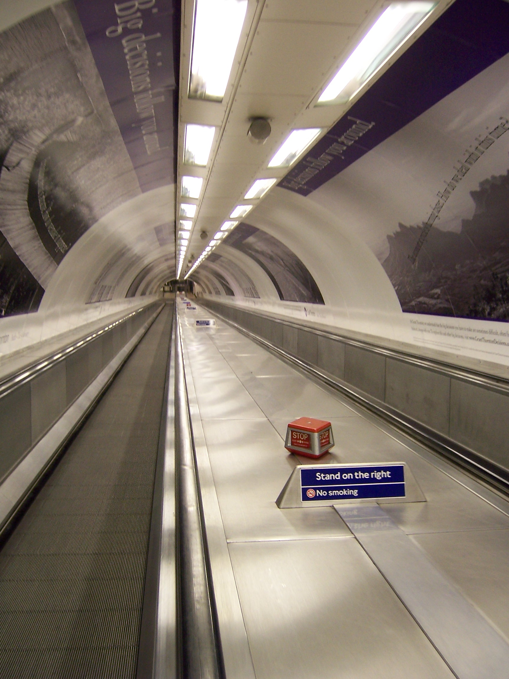 Long escalator an underground station in London.